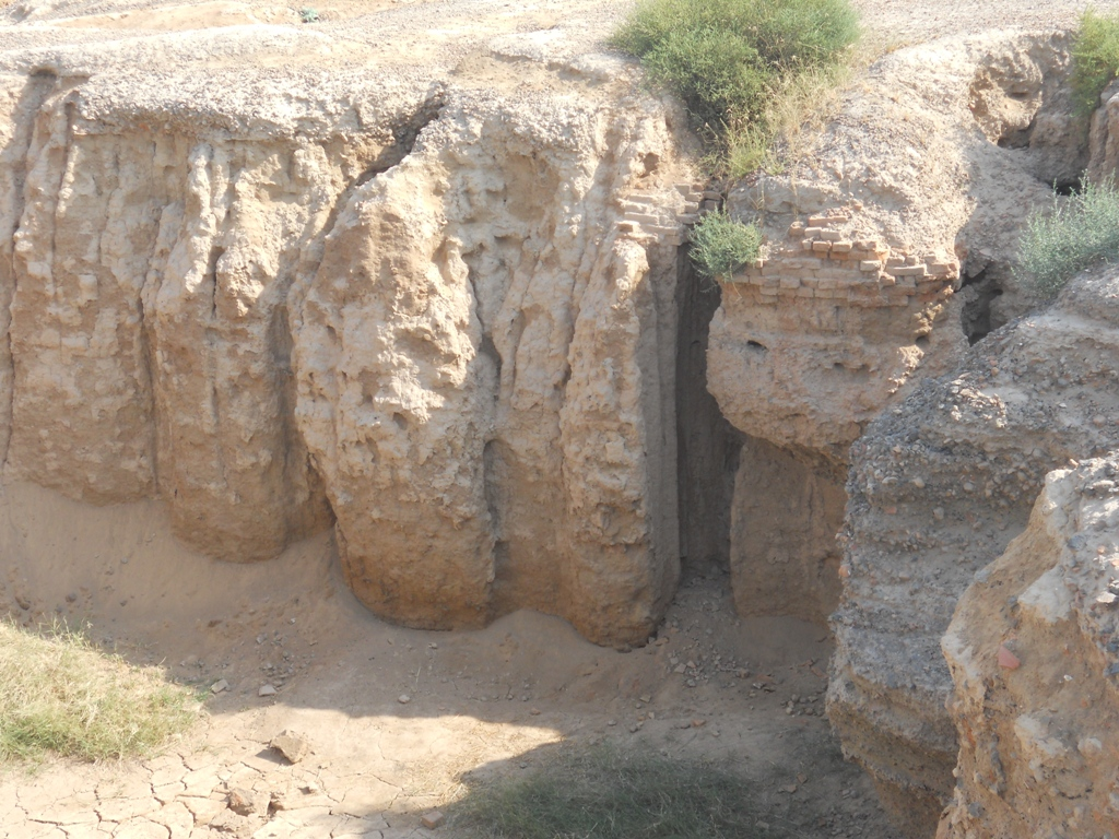 Three Ancient Mounds